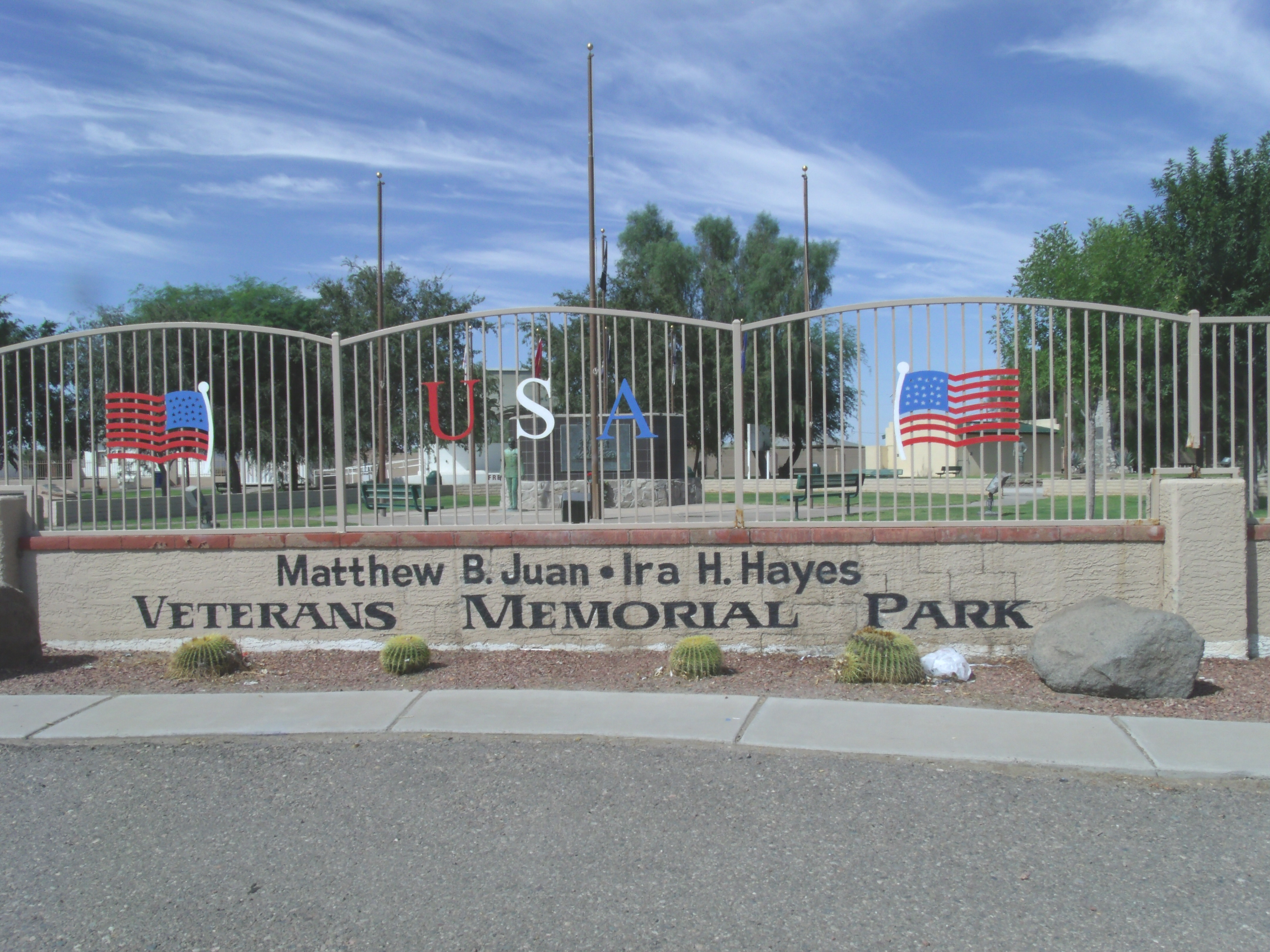 The Mathew B. Juan-Ira H. Hayes Veterans Memorial Park in Sacaton, Ariz. The Memorial Park commemorates Matthew B. Juan a Pima Indian who was the first Arizona Native-American to be killed in World War One. Ira Hayes was a Pima Indian who served in the United States Marine Corps who is best known for his participation in the U.S. flag rising at Iwo Jima in 945. The park is located on West Casa Blanca in Sacaton, Az.